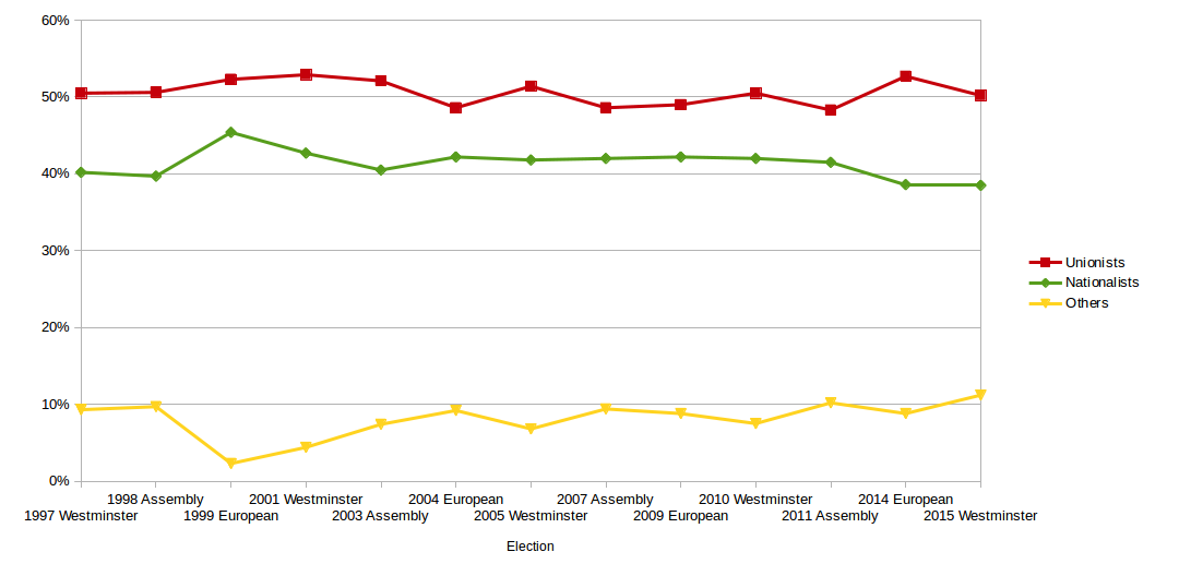 Shows the percentage of votes, or first preference votes, cast for candidates designating as Unionist, Nationalist and Other in elections in Northern Ireland.